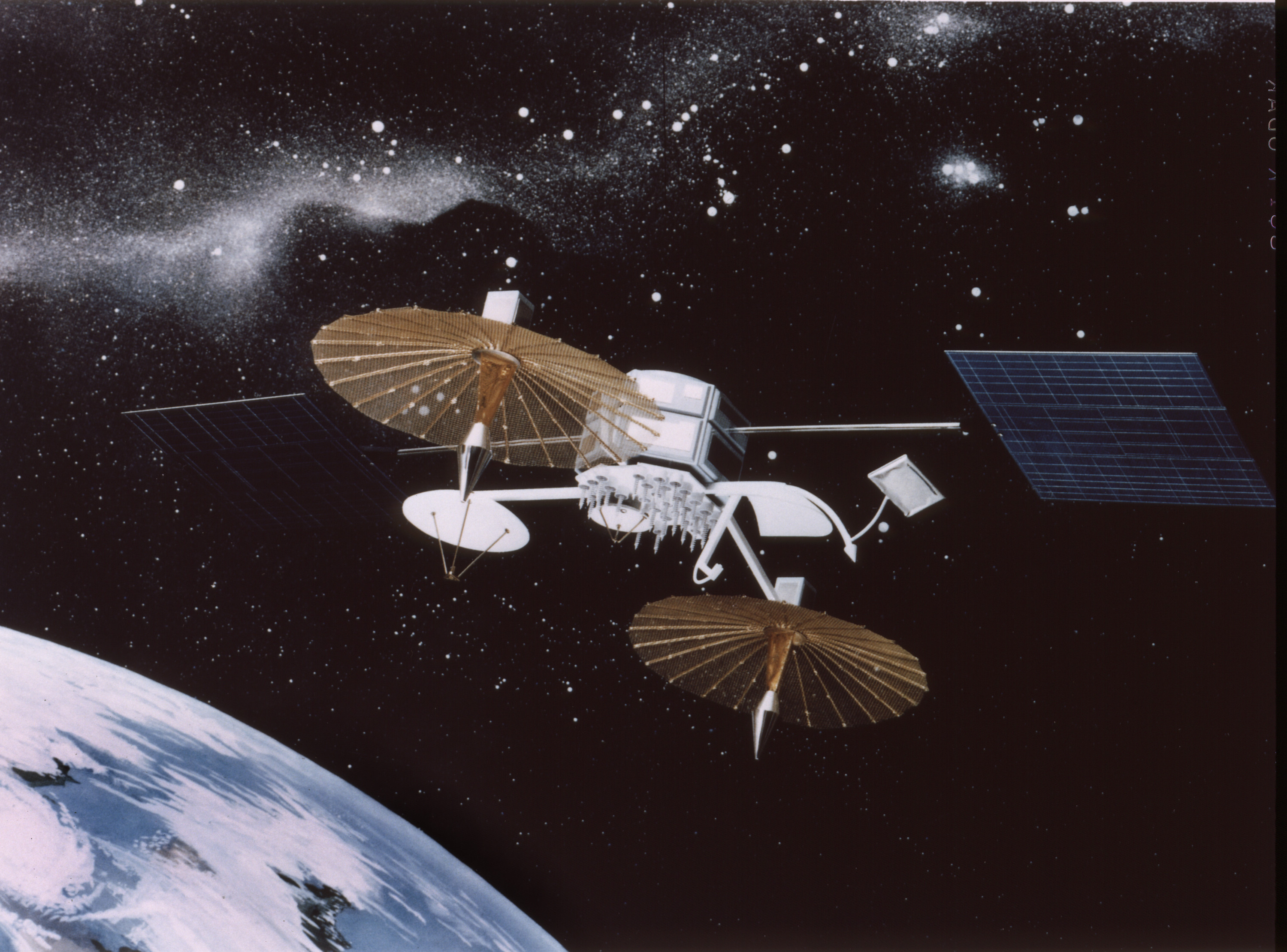 This artist's concept drawing depicts the Tracking and Data Relay Satellite-C (TDRS-C), which was the primary payload of the Space Shuttle Discovery on the STS-26 mission, launched on September 29, 1988. The TDRS system provides almost uninterrupted communications with Earth-orbiting Shuttles and satellites, and had replaced the intermittent coverage provided by globe-encircling ground tracking stations used during the early space program. The TDRS can transmit and receive data, and track a user spacecraft in a low Earth orbit. The deployment of TDRS-G on the STS-70 mission being the latest in the series, NASA has successfully launched six TDRSs. TDRS satellite of the first generation.